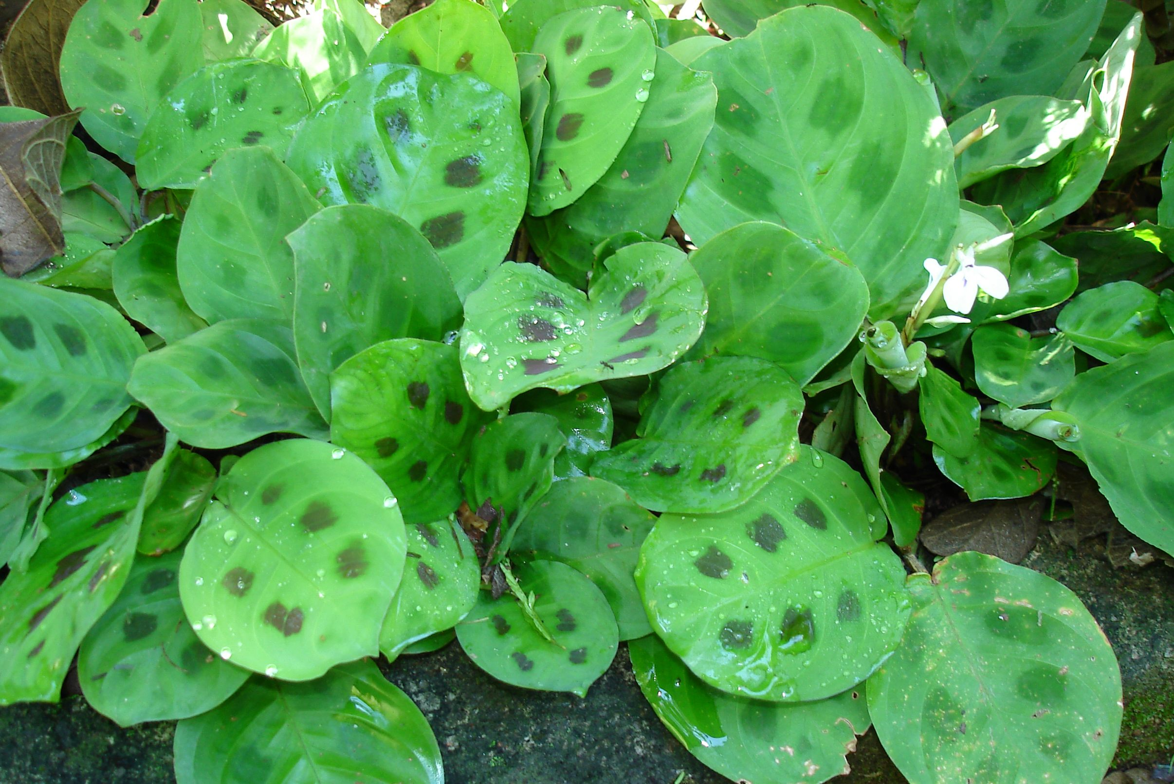 Origin: Petrópolis, Brazil